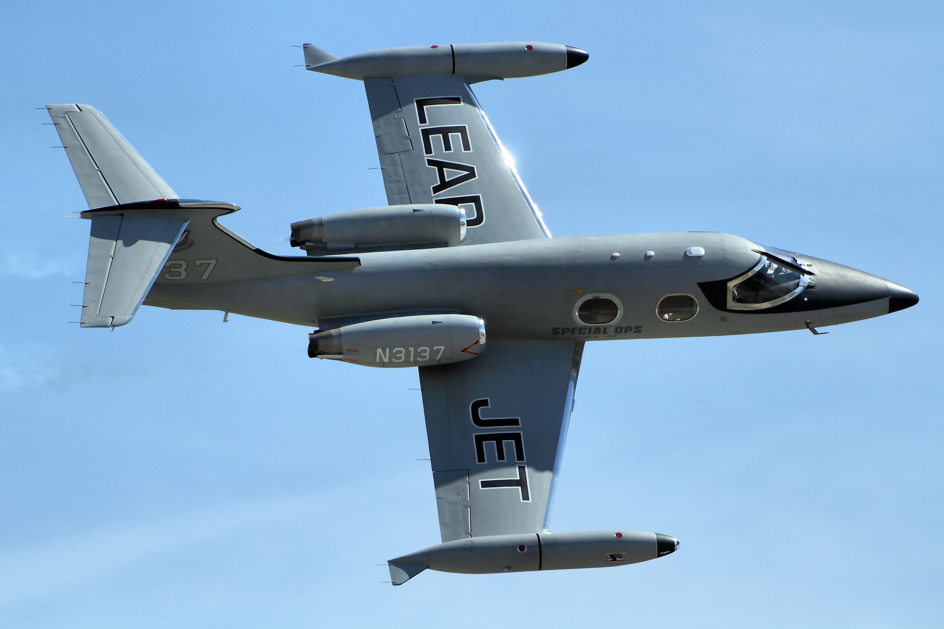 Lear Jet - Chino Airshow 2014